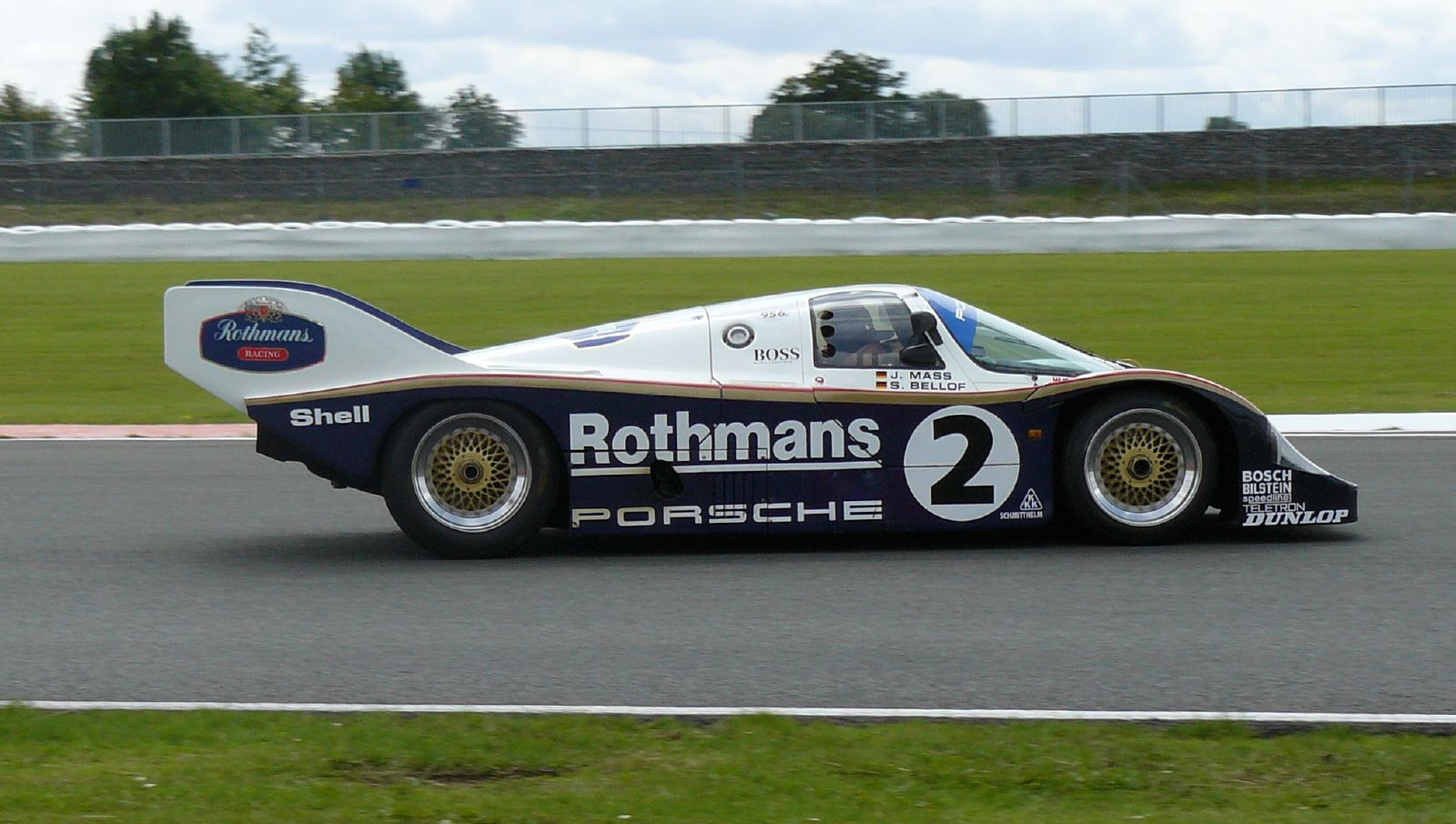 A Porsche 956 at the Silverstone Classic